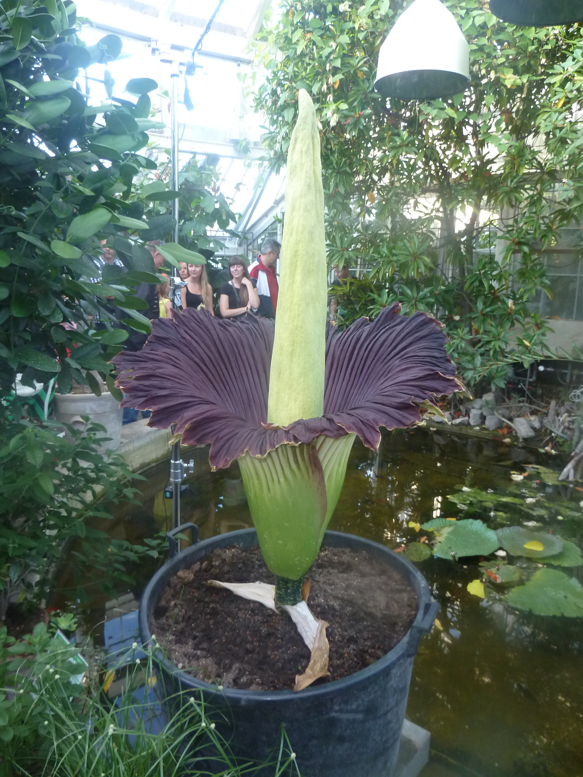 Amorphophallus titanum in the Botanical Garden in Copenhagen.